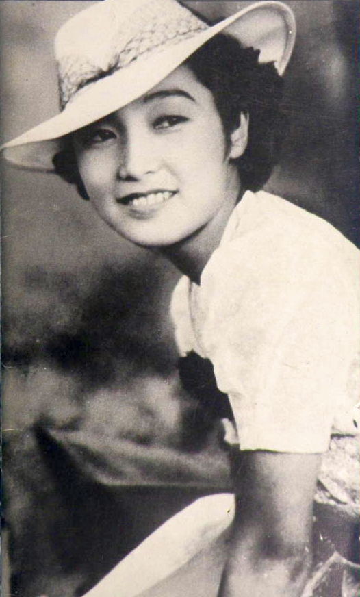 Mieko Takamine in Japanese movie Junjō nijūsō directed by Yasushi Sasaki